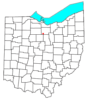 Locator map of the unincorporated community of Celeryville in Huron County, Ohio, United States.